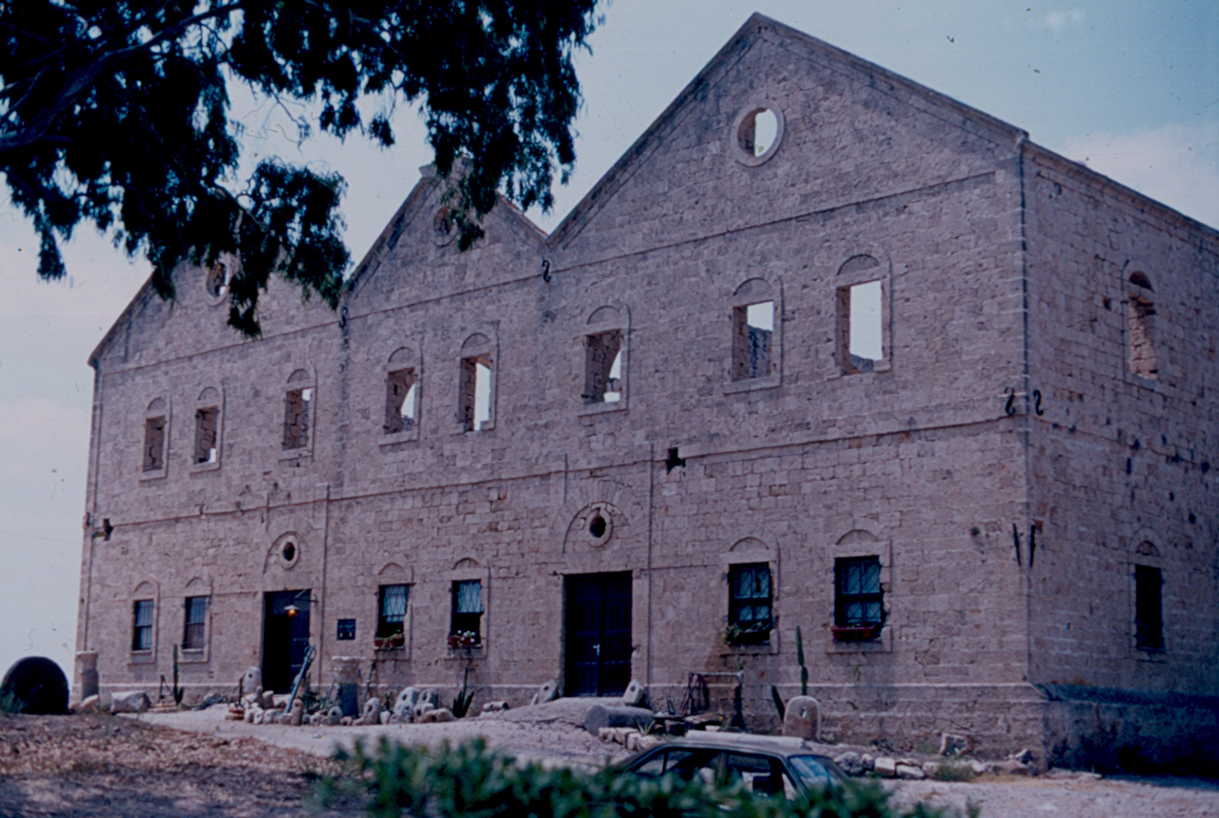 The old glass factory of Baron Edmond James de Rothschild in Kibbutz Nahsholim (Carmel coast, Israel). Today the building serves as a museum